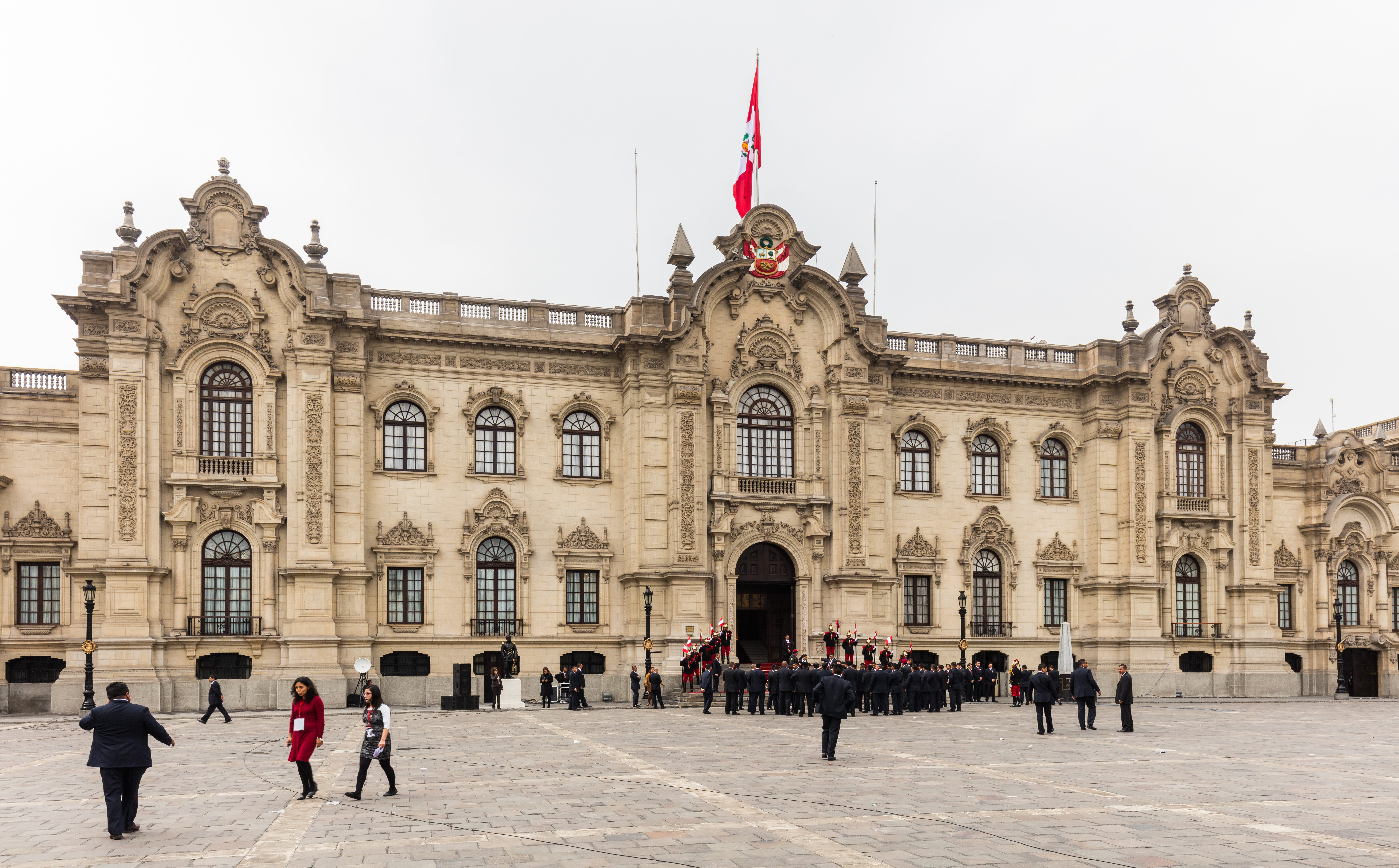 Government Palace, Lima, Peru